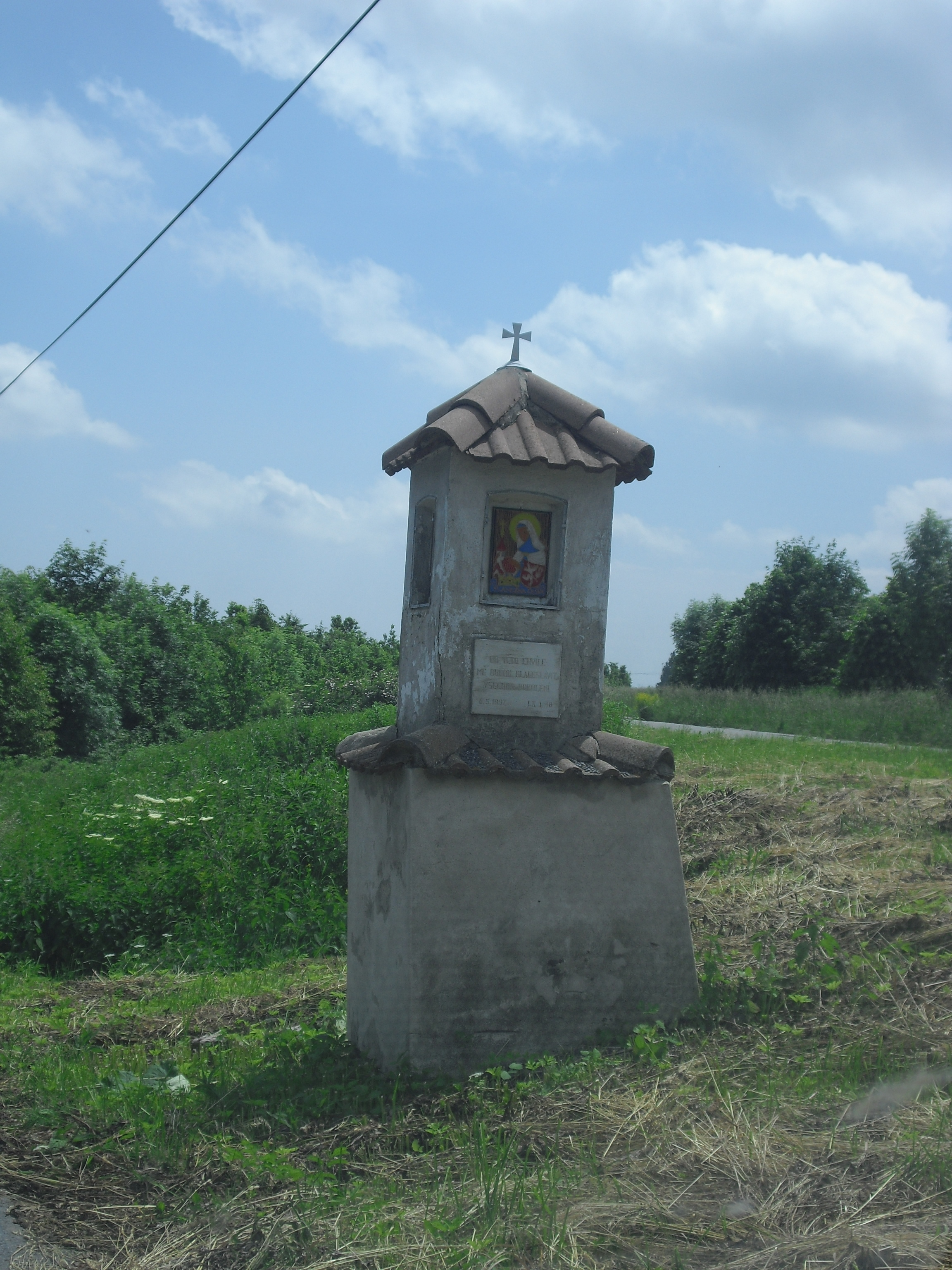 Odry, Nový Jičín District, Czech Republic, part Kamenka.